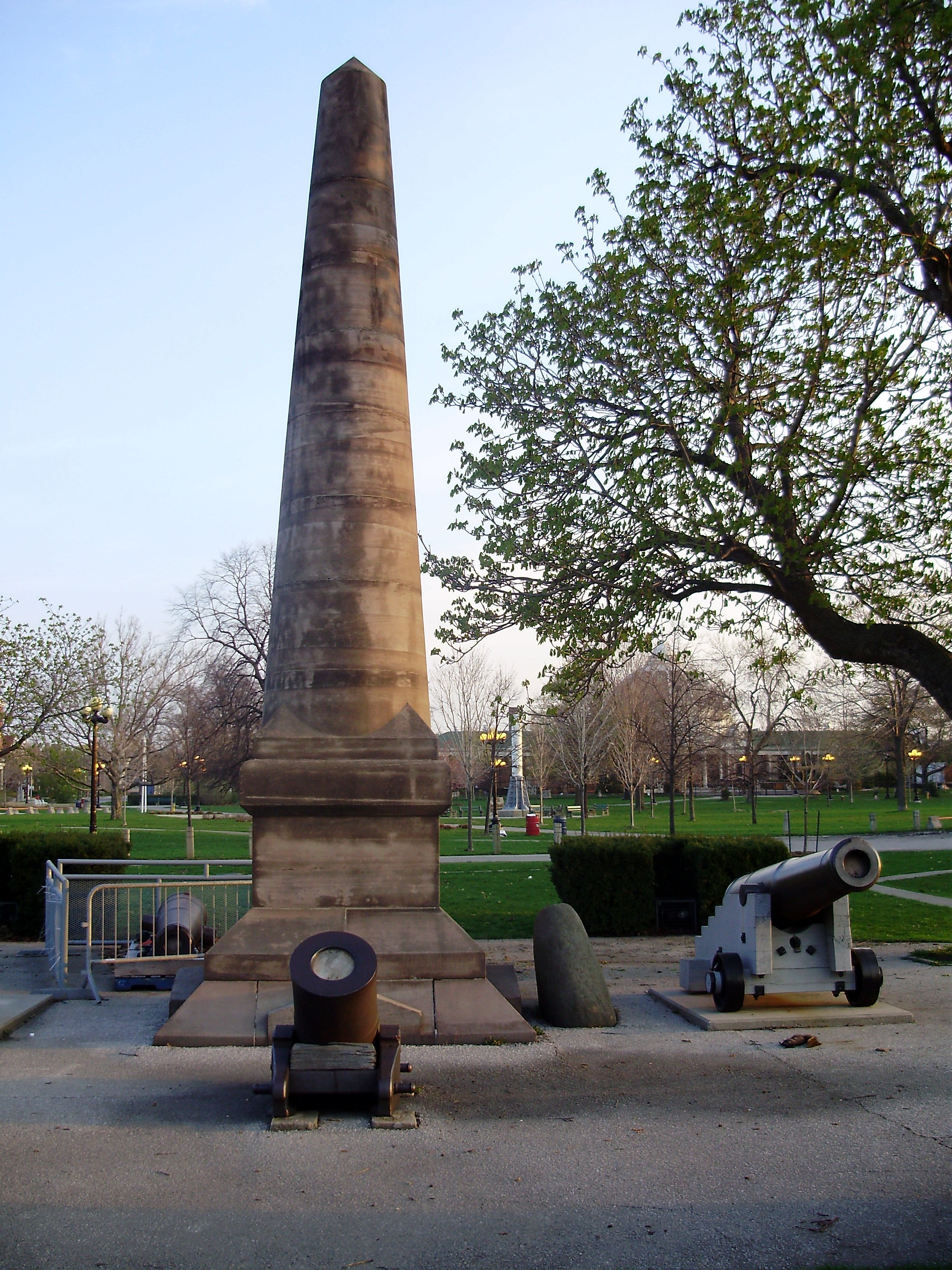 The Fort Rouillé monument at Exhibition Place, Toronto.